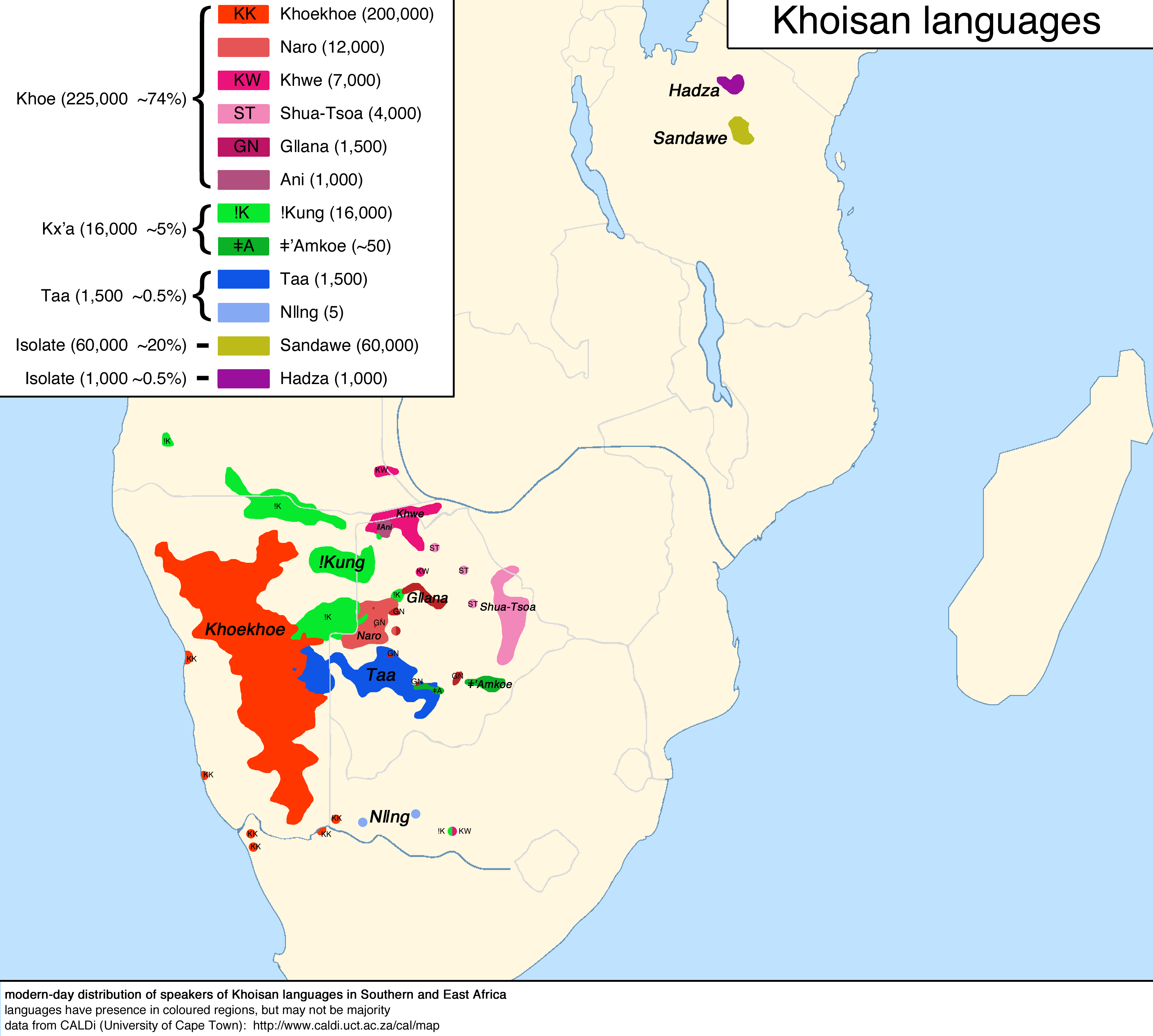 Distribution of speakers of Khoisan languages, with estimated numbers of speakers shown in brackets